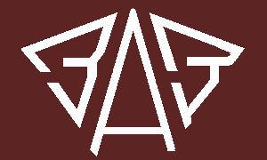 ZAZ-Logo